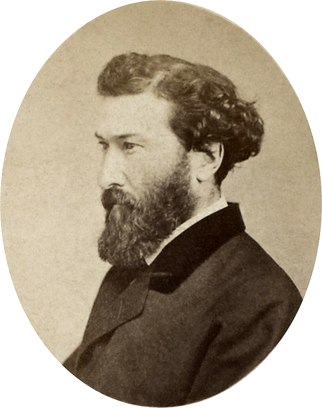 Émile Gaboriau (1832 - 1873), french novelist, one of the first crime fiction writers.